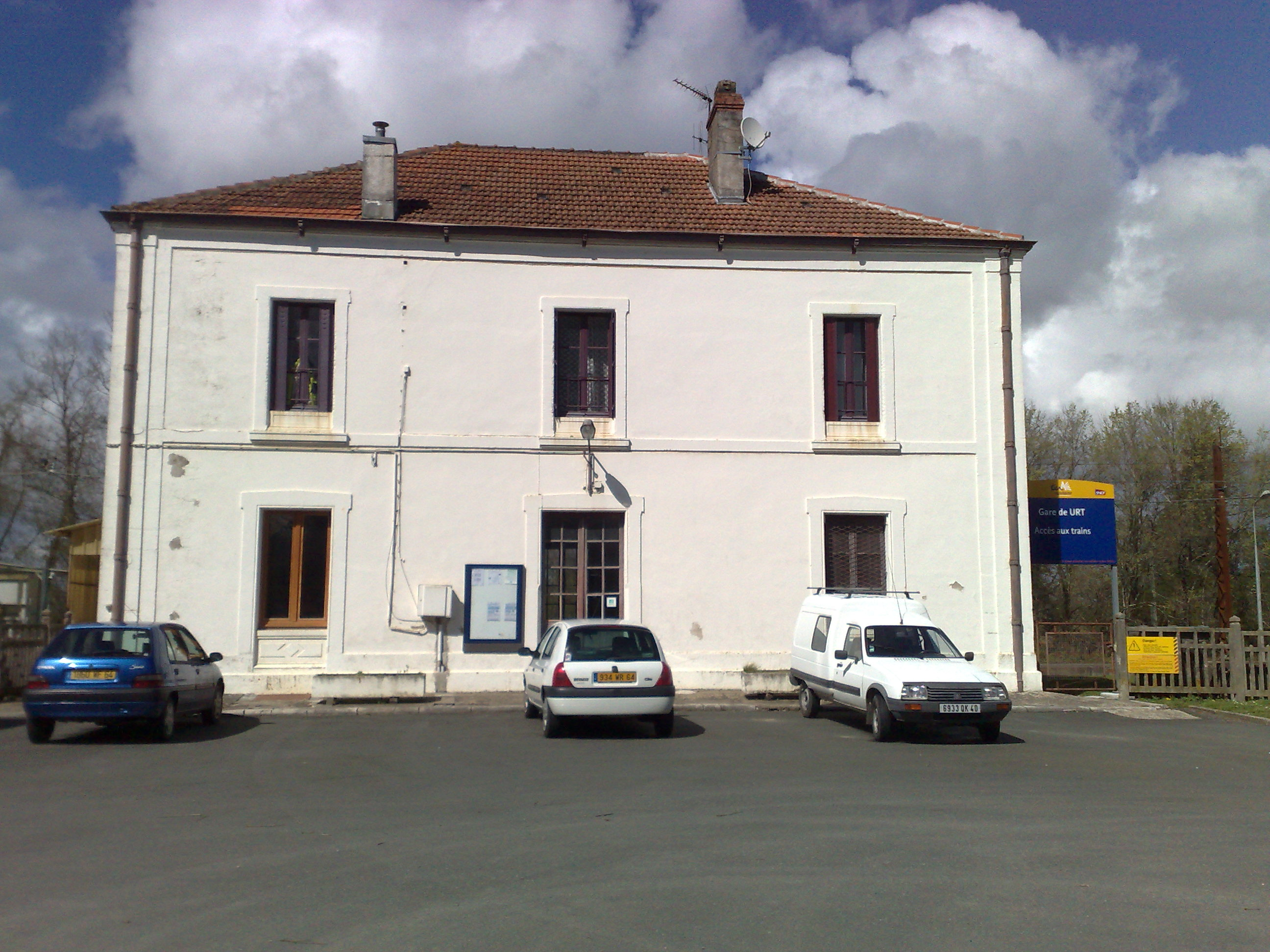 Ahurti-Urt train station, Lapurdi-Labourd, Basque Country.